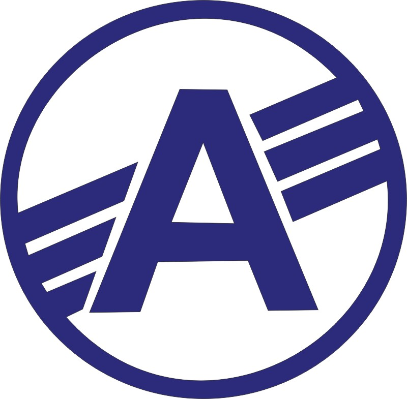 Atlético Cajazeirense de Desportos, Cajazeiras, Paraíba, Brazil.